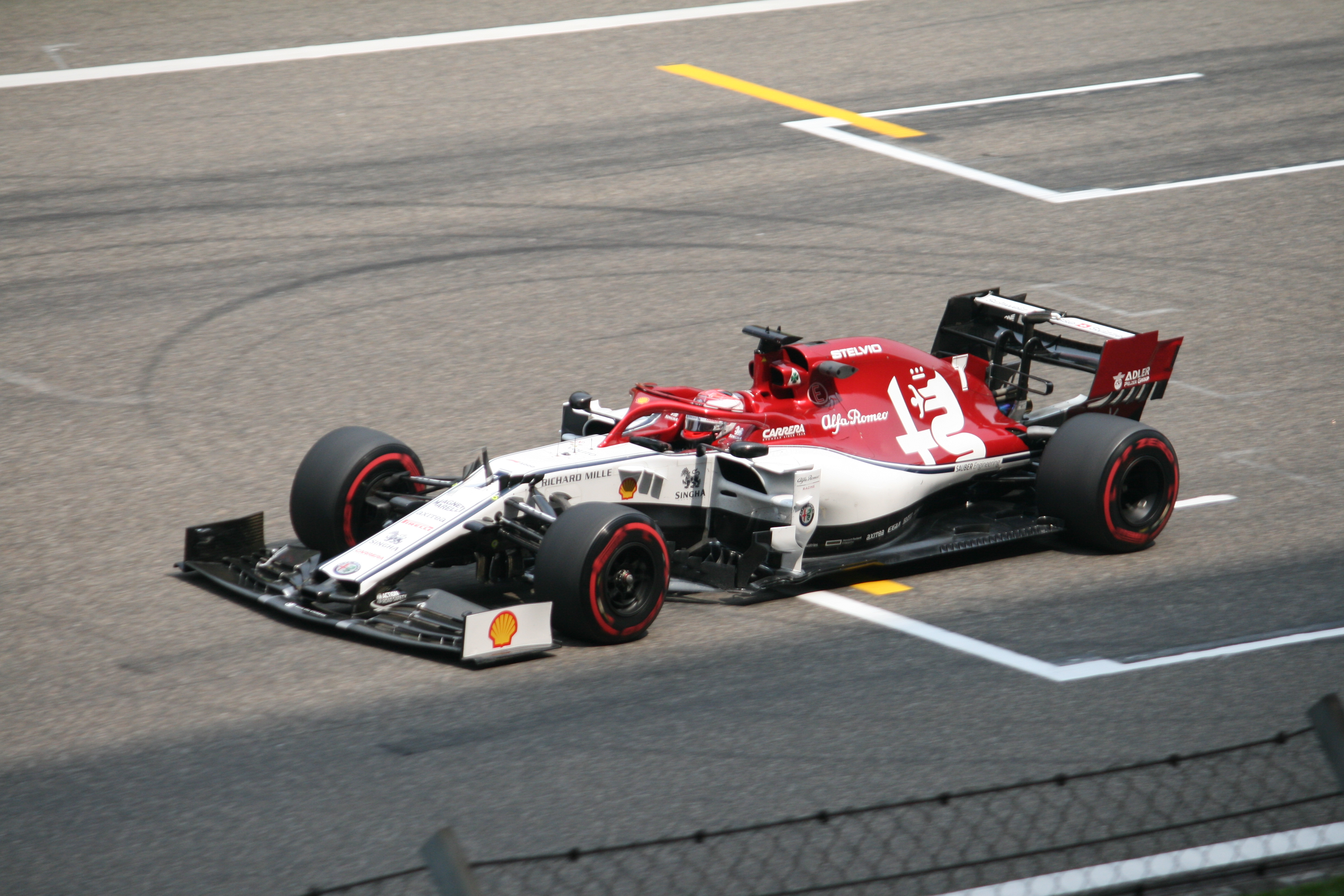 Kimi Räikkönen, 2019 Chinese GP